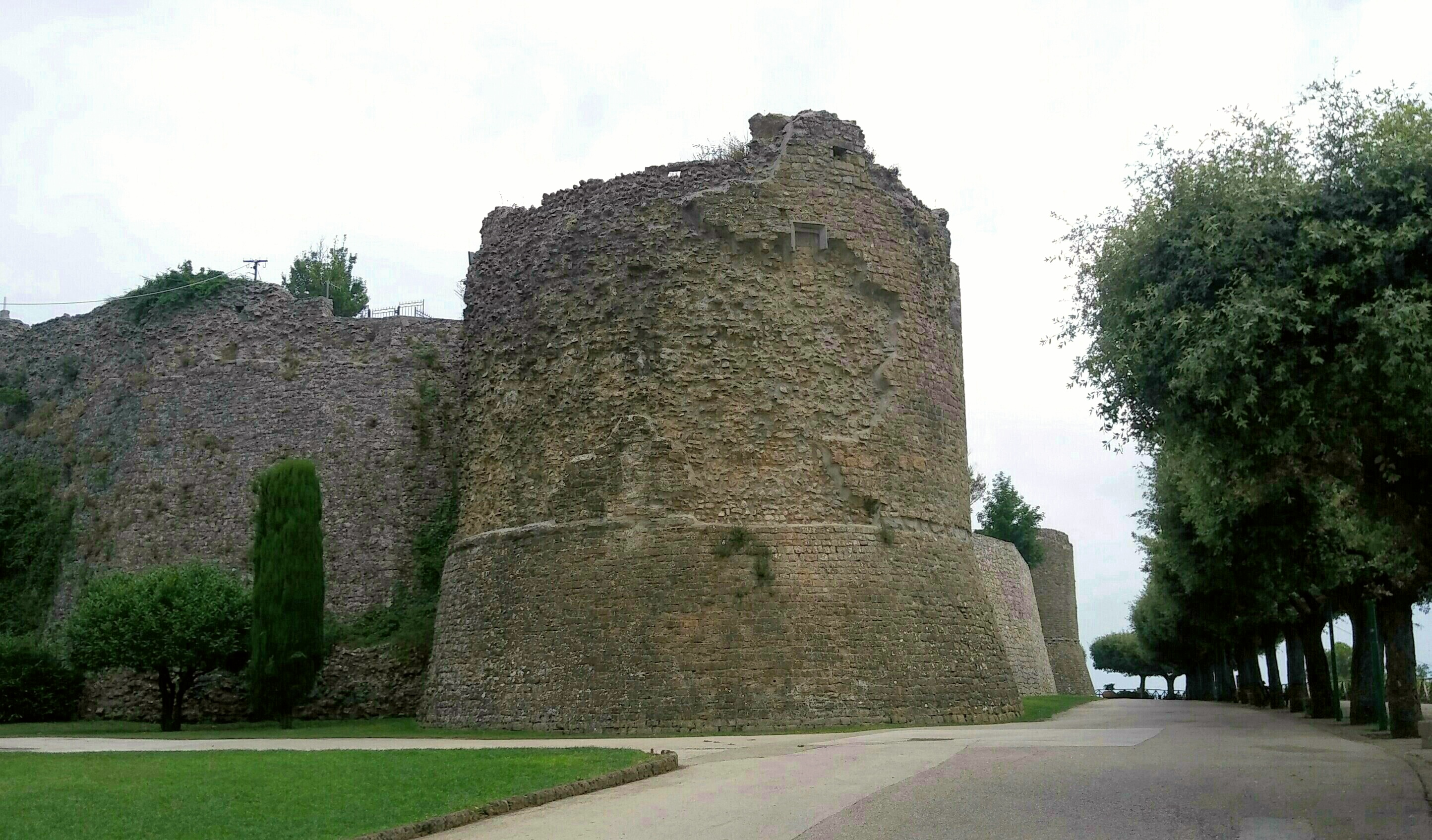 Western Tower of Norman Castle in Ariano Irpino, Italy